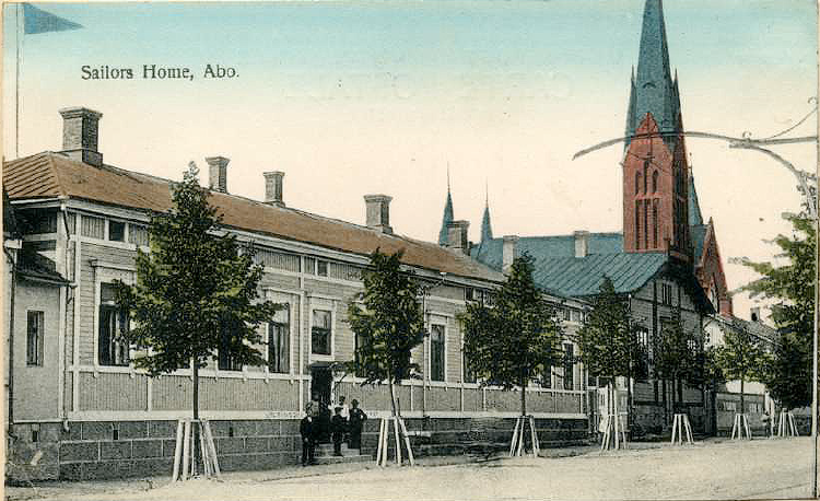 Former sailors' home on Puistokatu, Turku, Finland. Also housed a school for ship cooks and stewards 1901–1915. Apparently a hand-coloured postcard from early 1900s. Mikaelinkirkko church in the background.